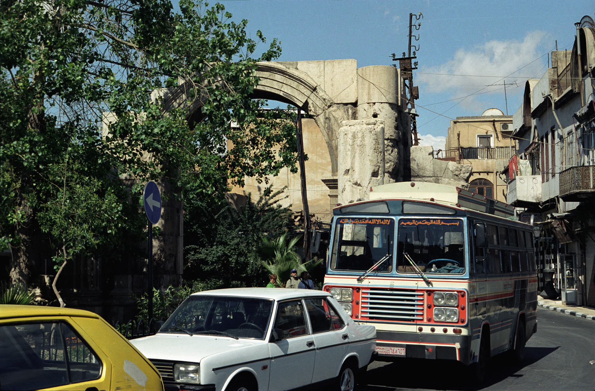 Damascus, A Street Called Straight Via Recta